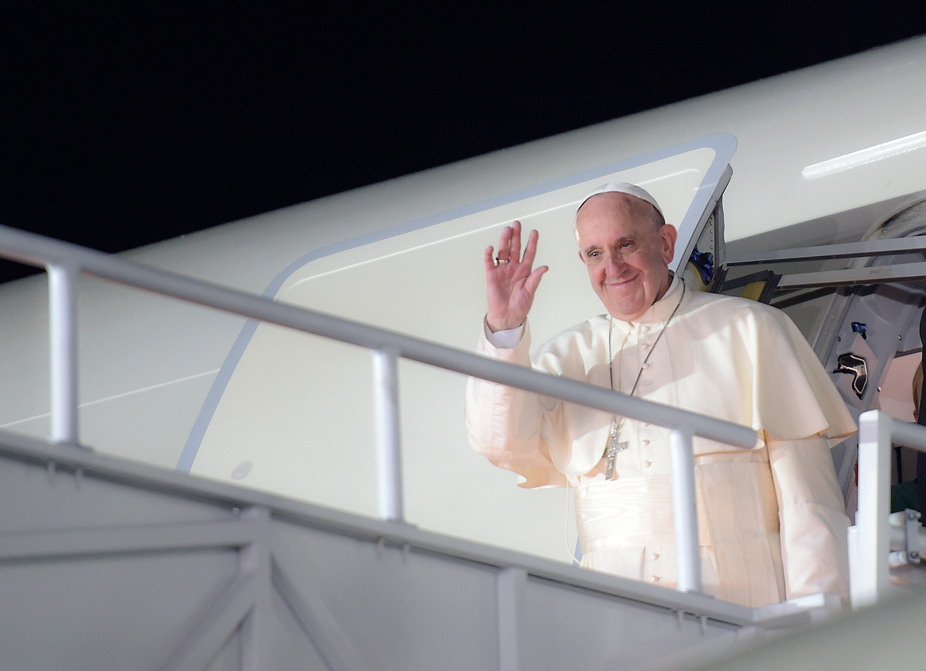 12 de febrero del 2016